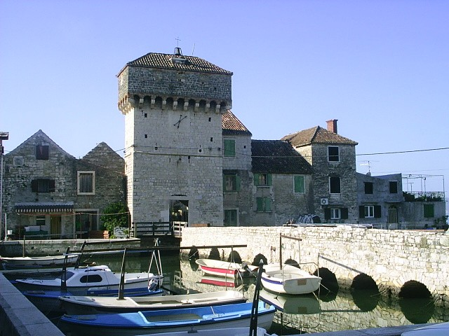 Town of Kaštel Gomilica near Split, Croatia